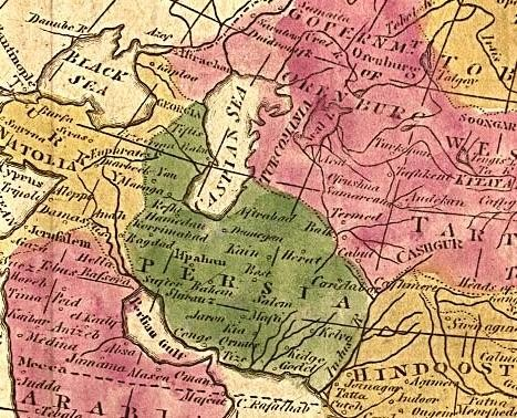 A historical map of Persia (Iran) in 1808 — dubious depiction, probably related to Nader Shah of the Afsharid Empire.